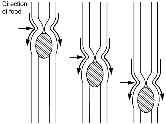 Illustration from Anatomy & Physiology, Connexions Web site. Jun 19, 2013.